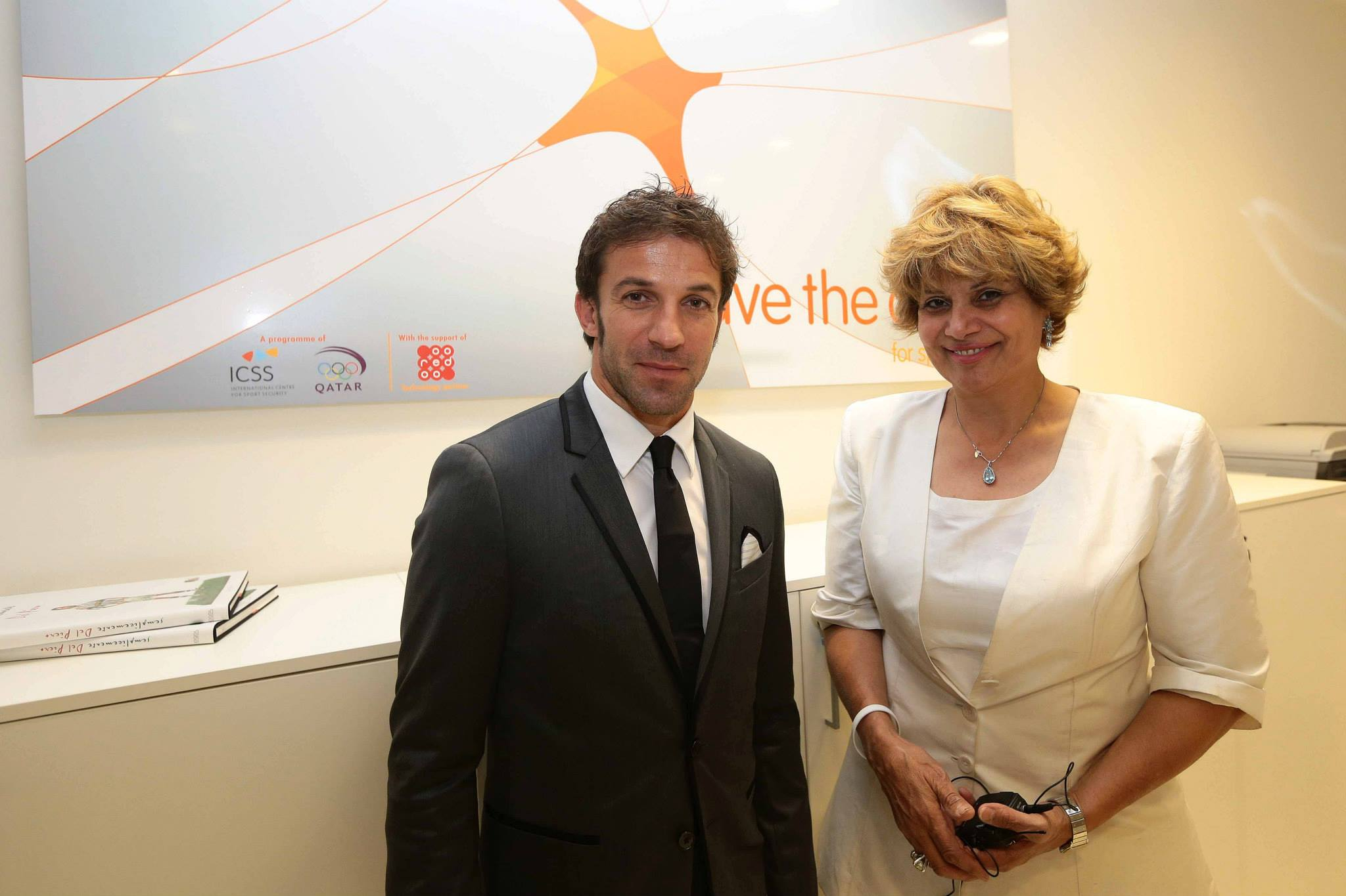 Siham Alawami with football legend Allesandro Del Piero at the Save The Dream office launch